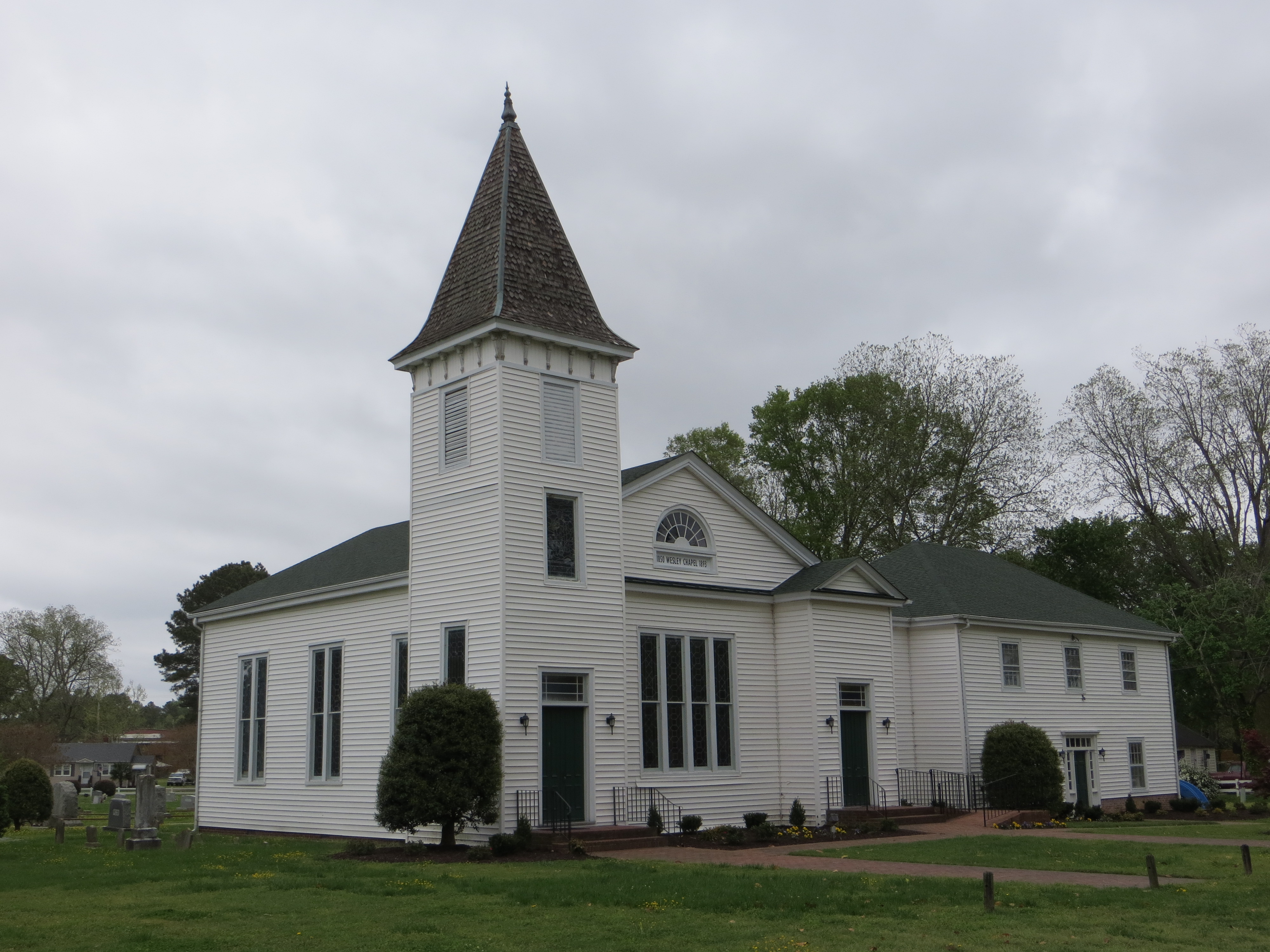 Wesley Chapel, Chuckatuck Historic District, Suffolk, Virginia; founded 1850